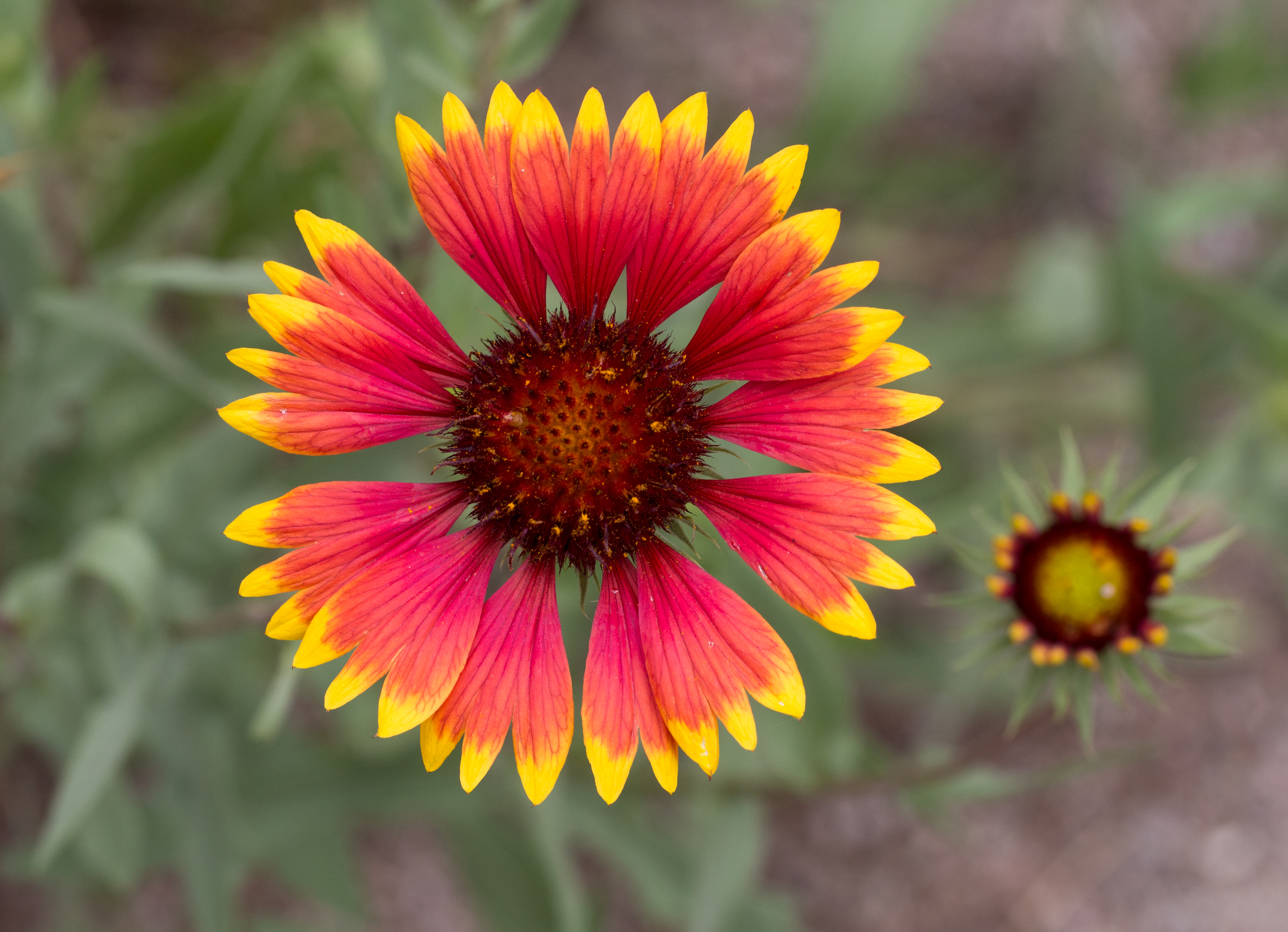 Firewheel (Indian blankerflower, sundance, Gaillardia pulchella) in Aspen, Colorado.